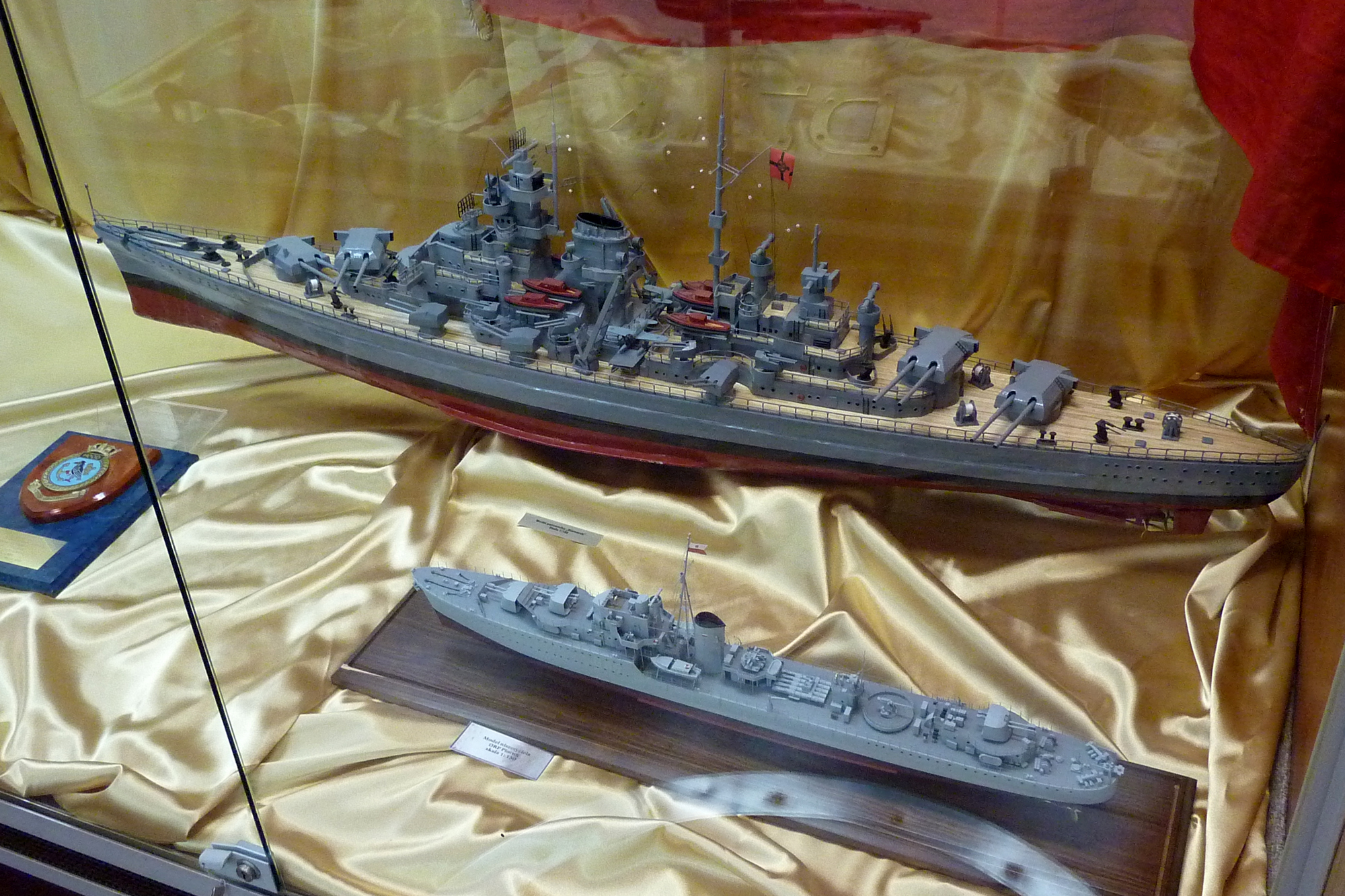 Comparison of size of Polish destroyer ORP Piorun and German battleship Bismarck